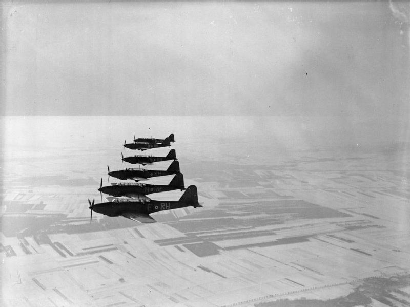 Royal Air Force- France, 1939-1940. Six Fairey Battles of No. 88 Squadron RAF based at Mourmelon-le-Grand, flying in starboard echelon formation over the snow-covered French countryside.